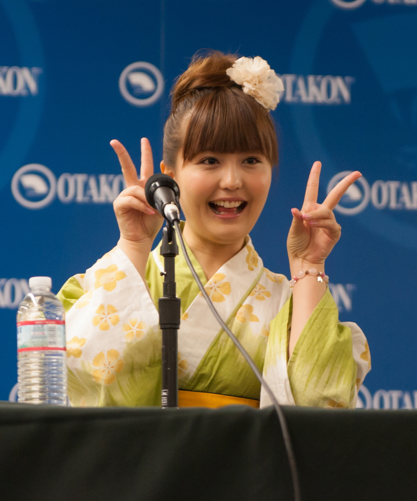 Ai Nonaka with Madoka Magica cosplayers at Otakon 2012